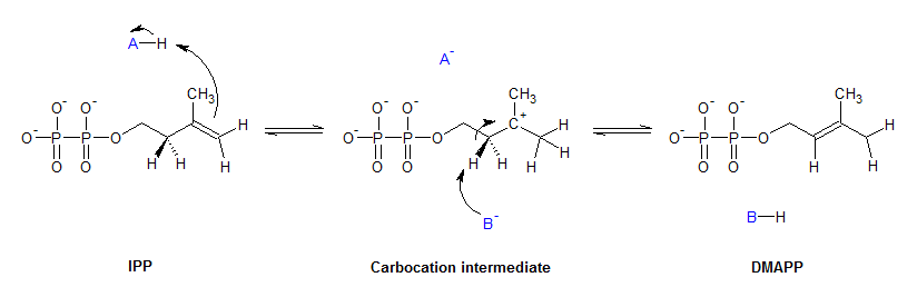 This image shows the reaction mechanism for isopentenyl pyrophosphate isomerase catalyzing the isomerization of isopentenyl pyrophosphate to dimethylallyl pyrophosphate. The reaction was drawn using ACD Chemsketch freeware.